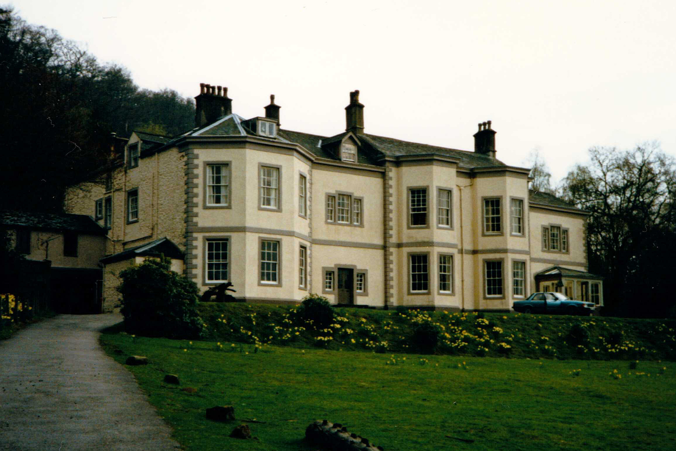 Barrow House in Borrowdale, Cumbria, which is now known as Derwentwater Youth Hostel